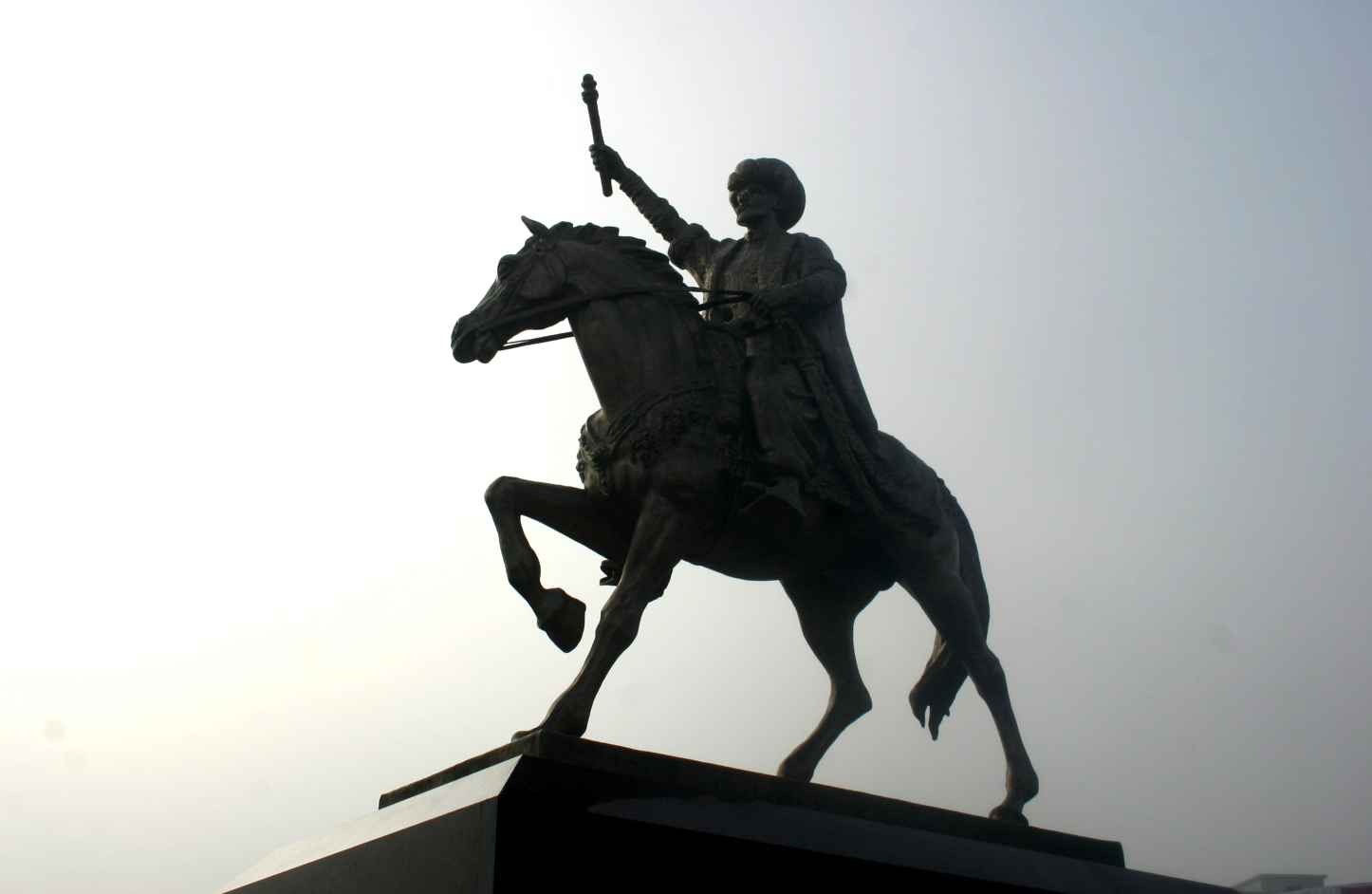 Statue of Mehmed II in Edirne.